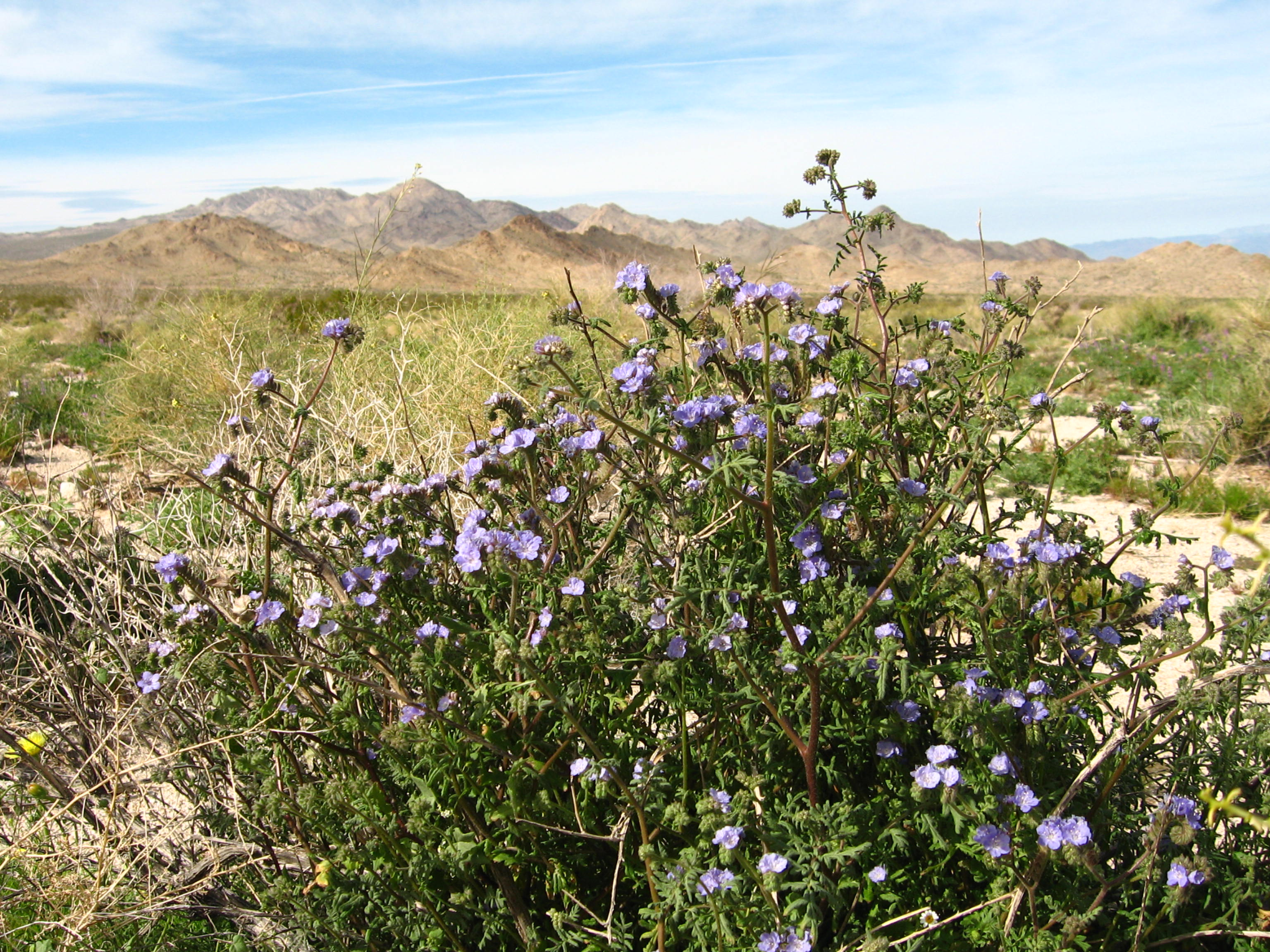 Distant phacelia (Phacelia distans). NPS/Robb Hannawacker